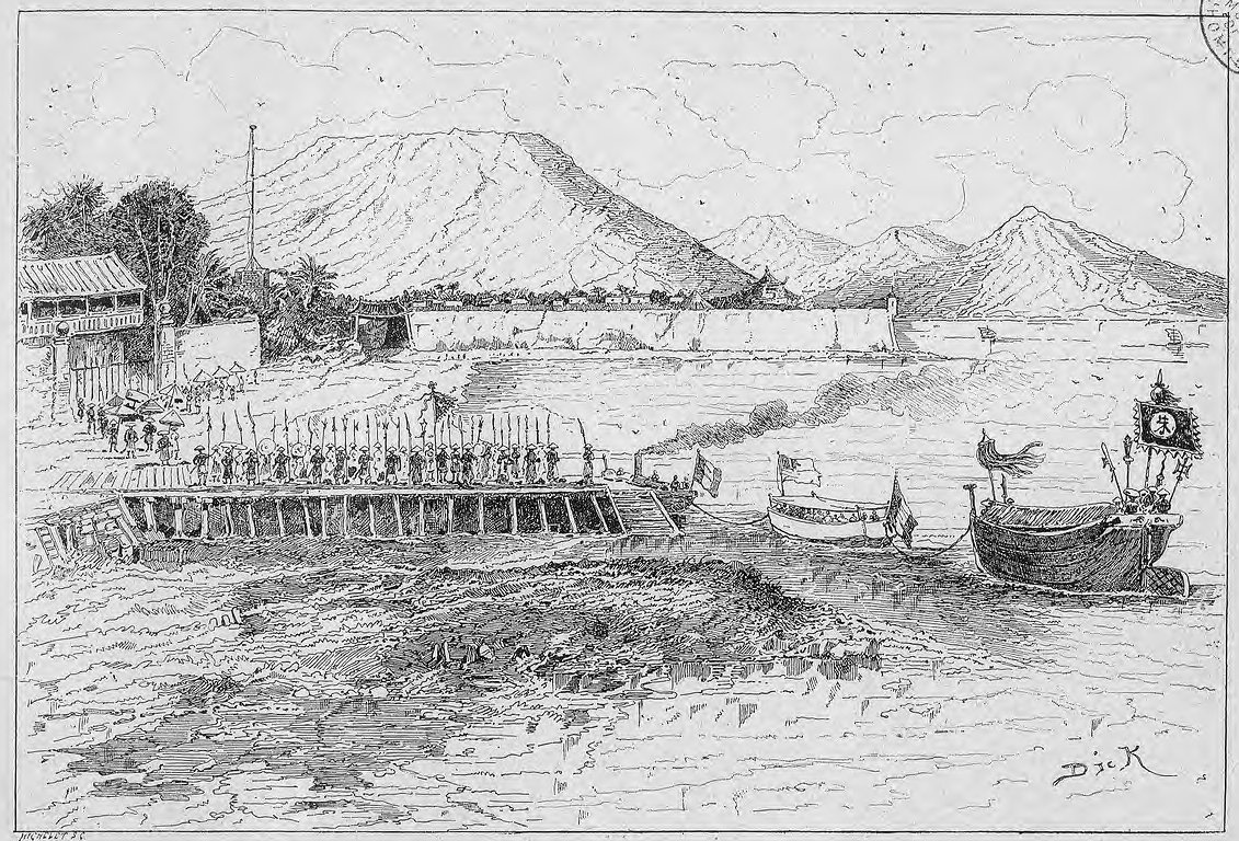 French plenipotentiaries arrived in the city of Hué.